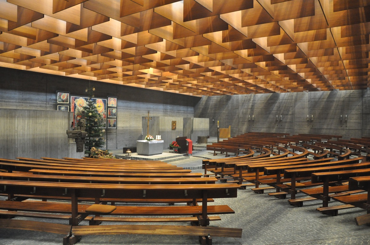 Catholic church St. Paul Heidelberg, Germany